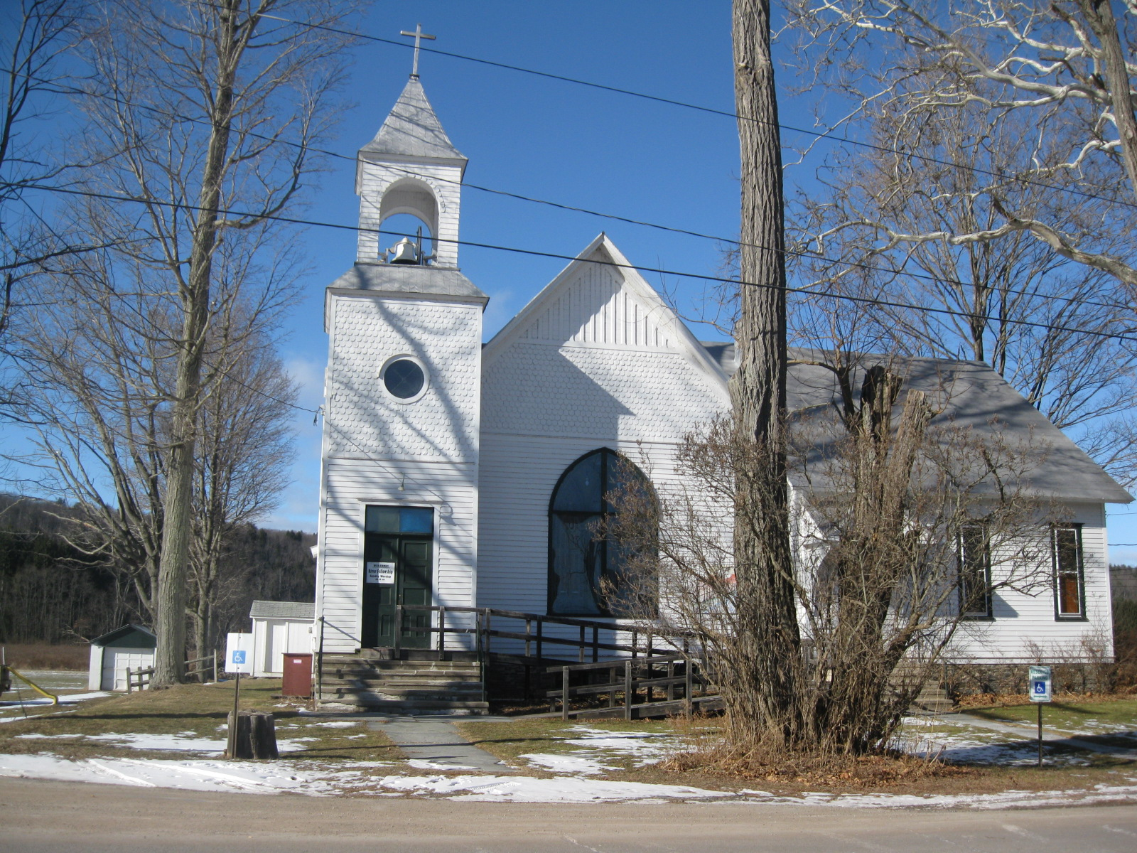 Cohecton, New York